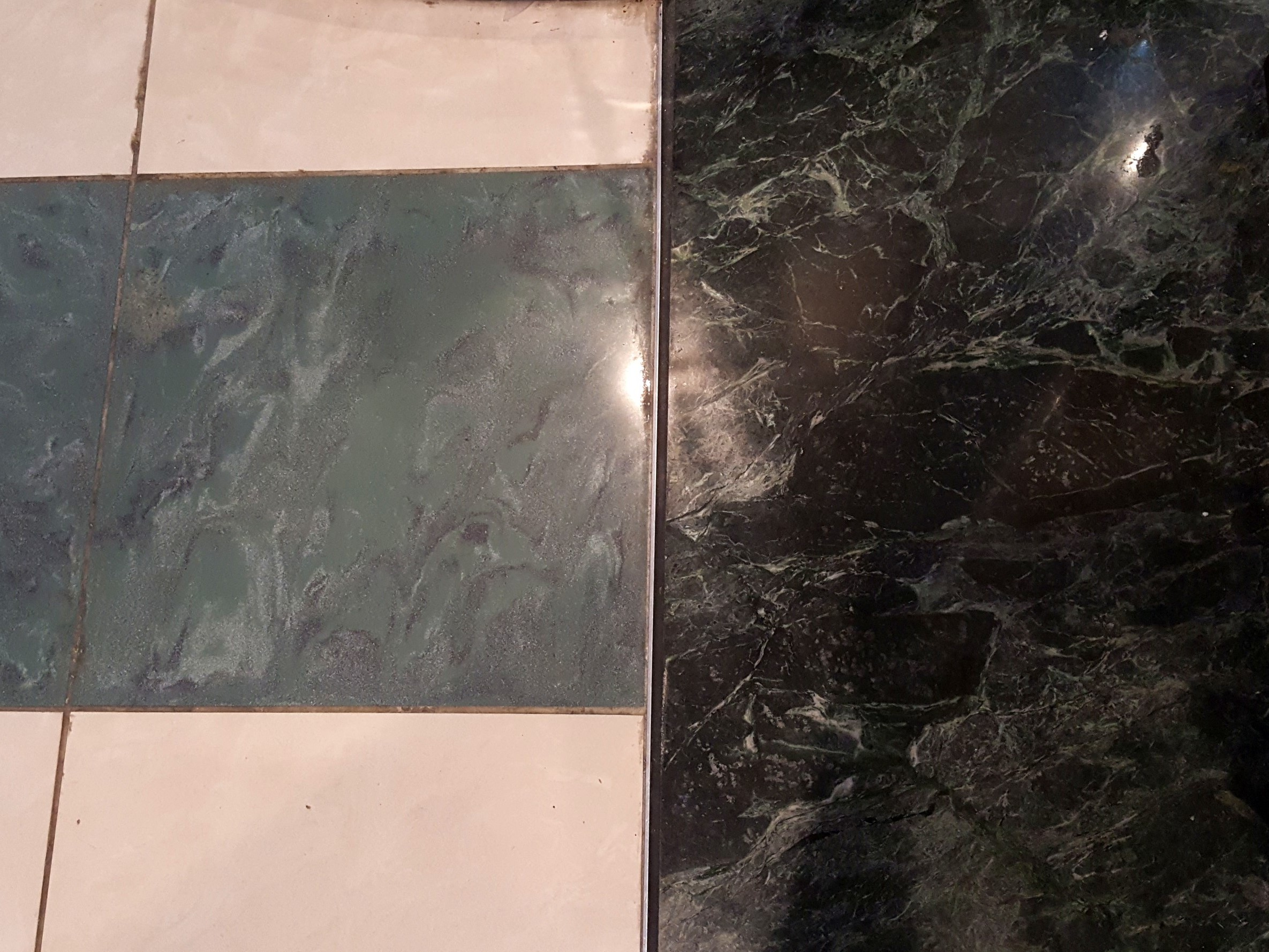 Different types of floor in Kai Tin Shopping Centre